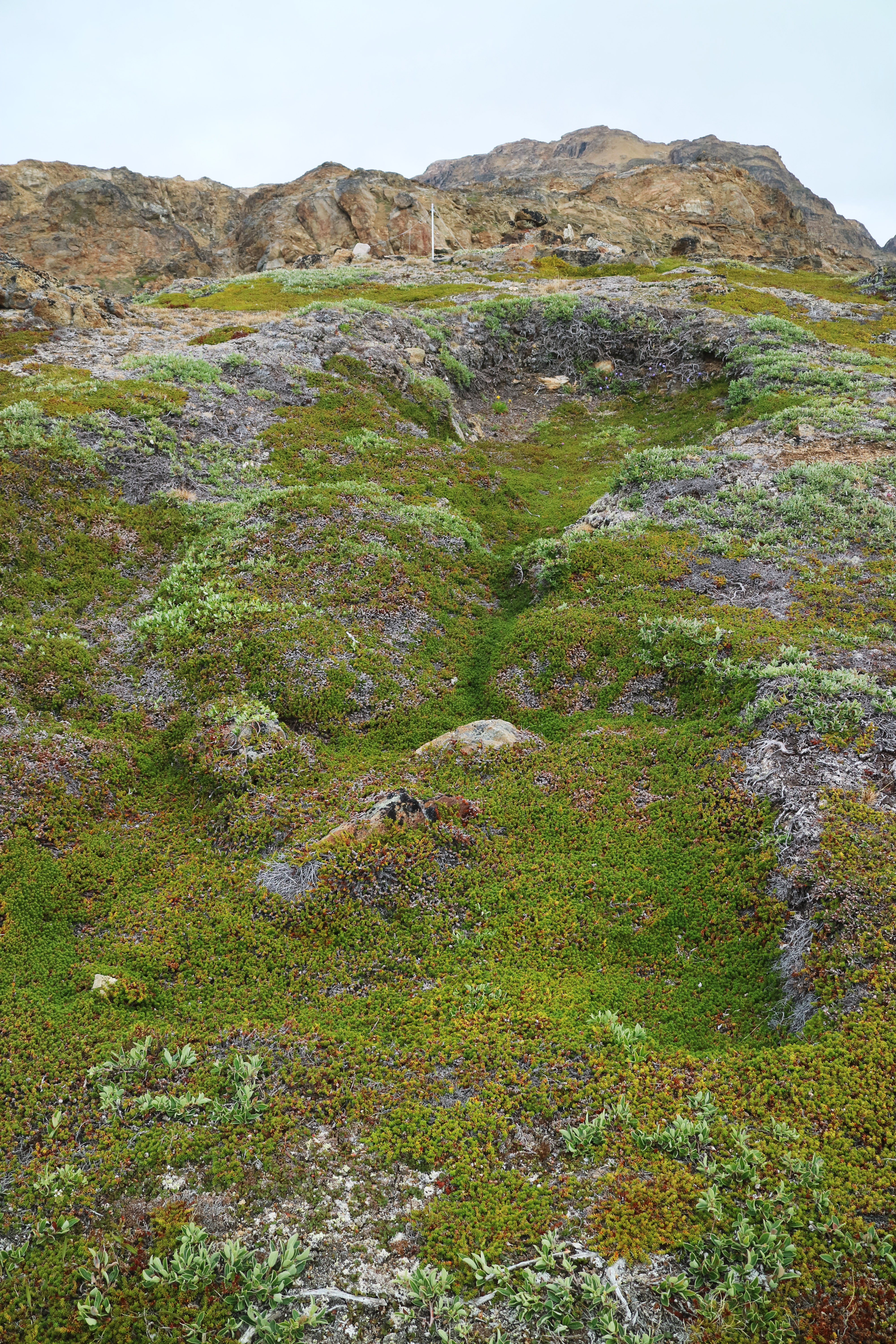 Ruin of an Inuit peat hut of the abandonned settlement of Sivinganeq at the West coast of Ammassalik Island, South East Greenland